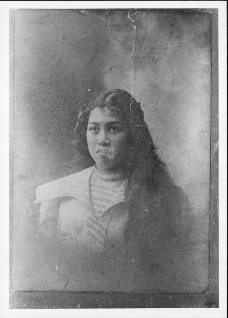 Mauli Lapana (1885–1899), daughter of Elizabeth Keawepoʻoʻole Sumner. Photograph part of the Buffandeau-Topolinski Family Collection of the Hawaii State Archives.